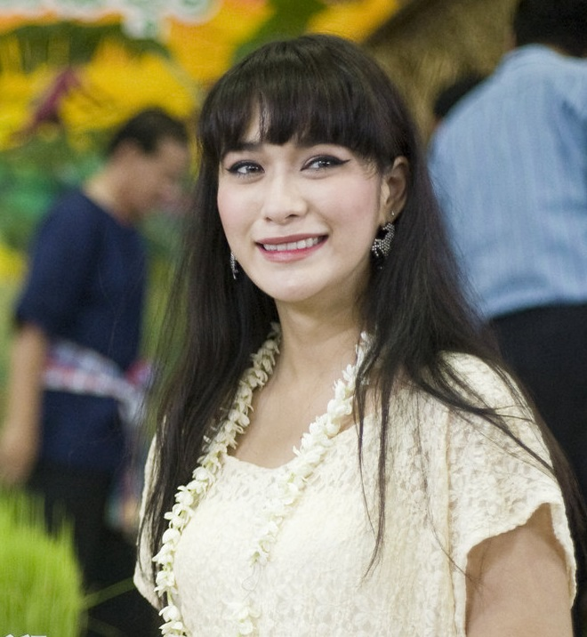 Chermarn Boonyasak in 2009.